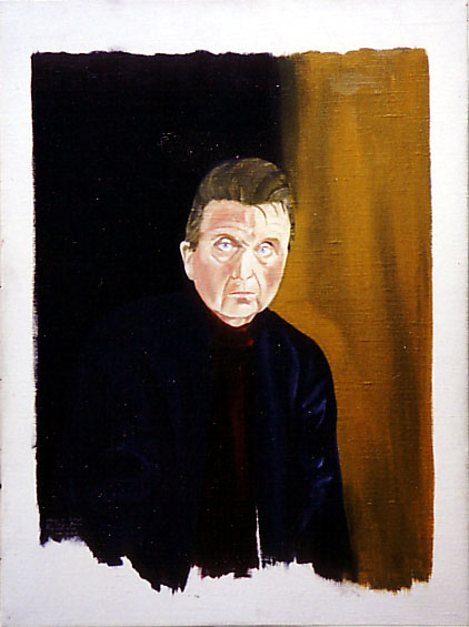 Egg Tempera on Canvas